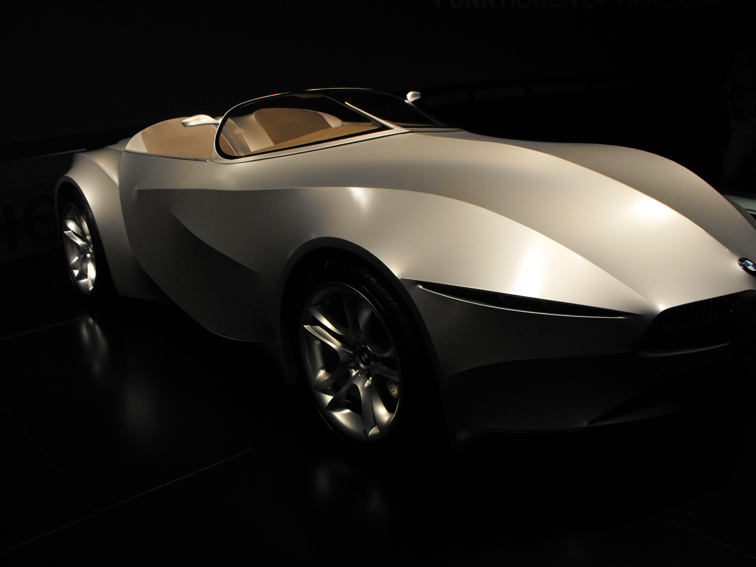 BMW Gina - fabric-skinned shape-shifting sports car